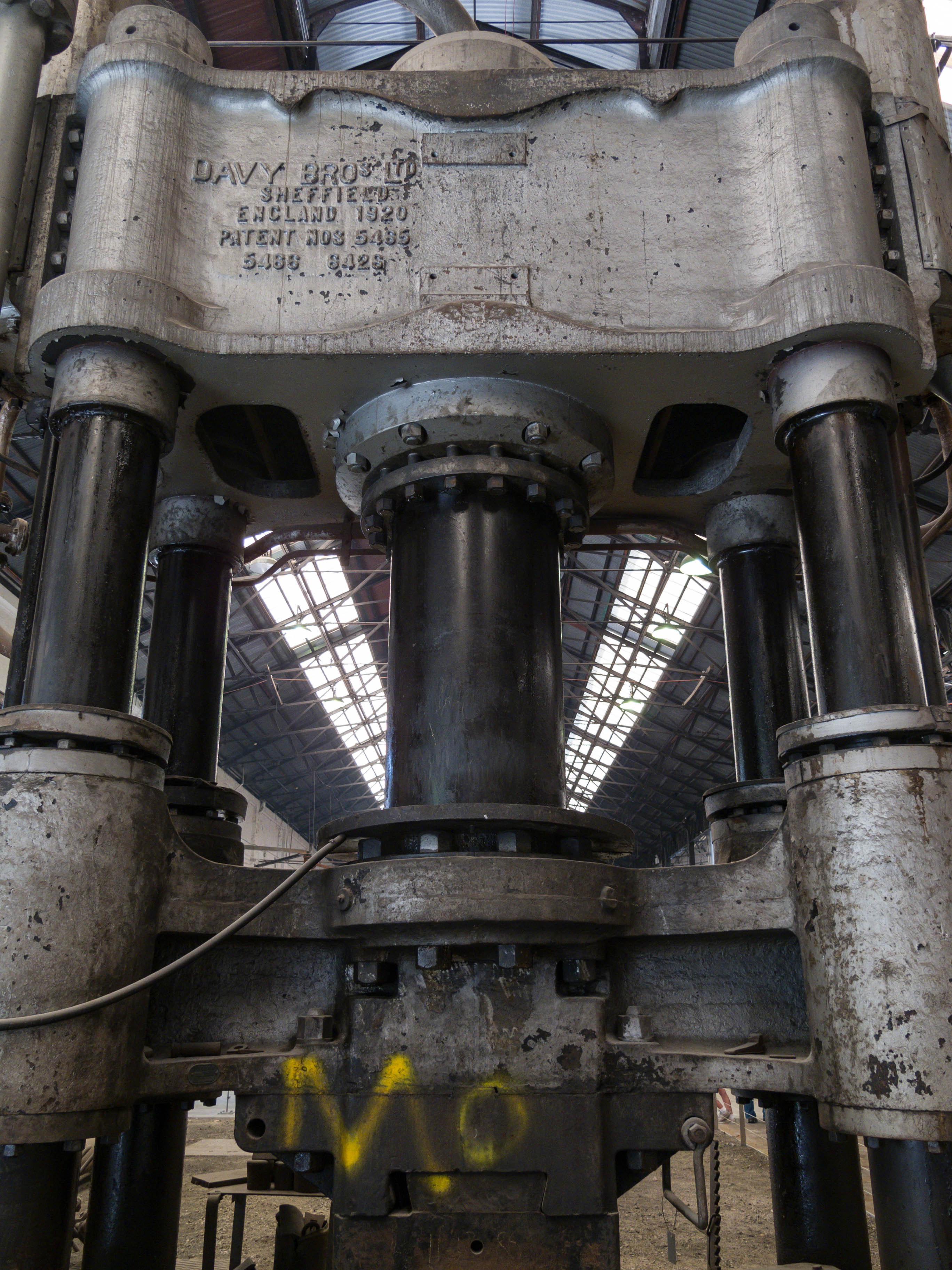 Eveleigh Railway Workshops Blacksmiths Shop